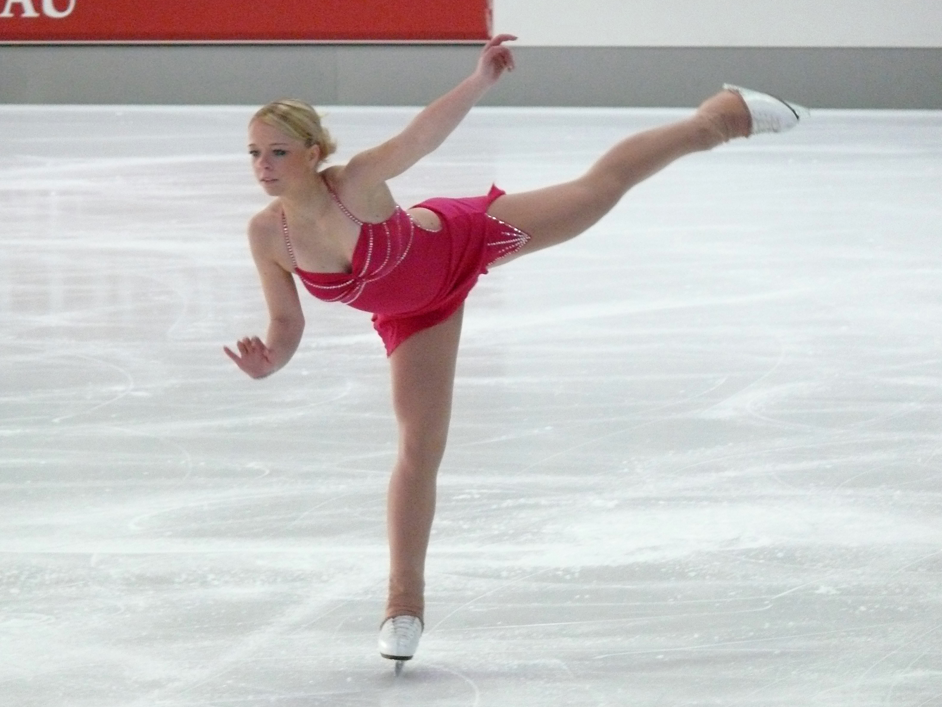 Katharina Häcker (GER) at her free program at the Nebelhorntrophy 2008 in Oberstdorf, Germany